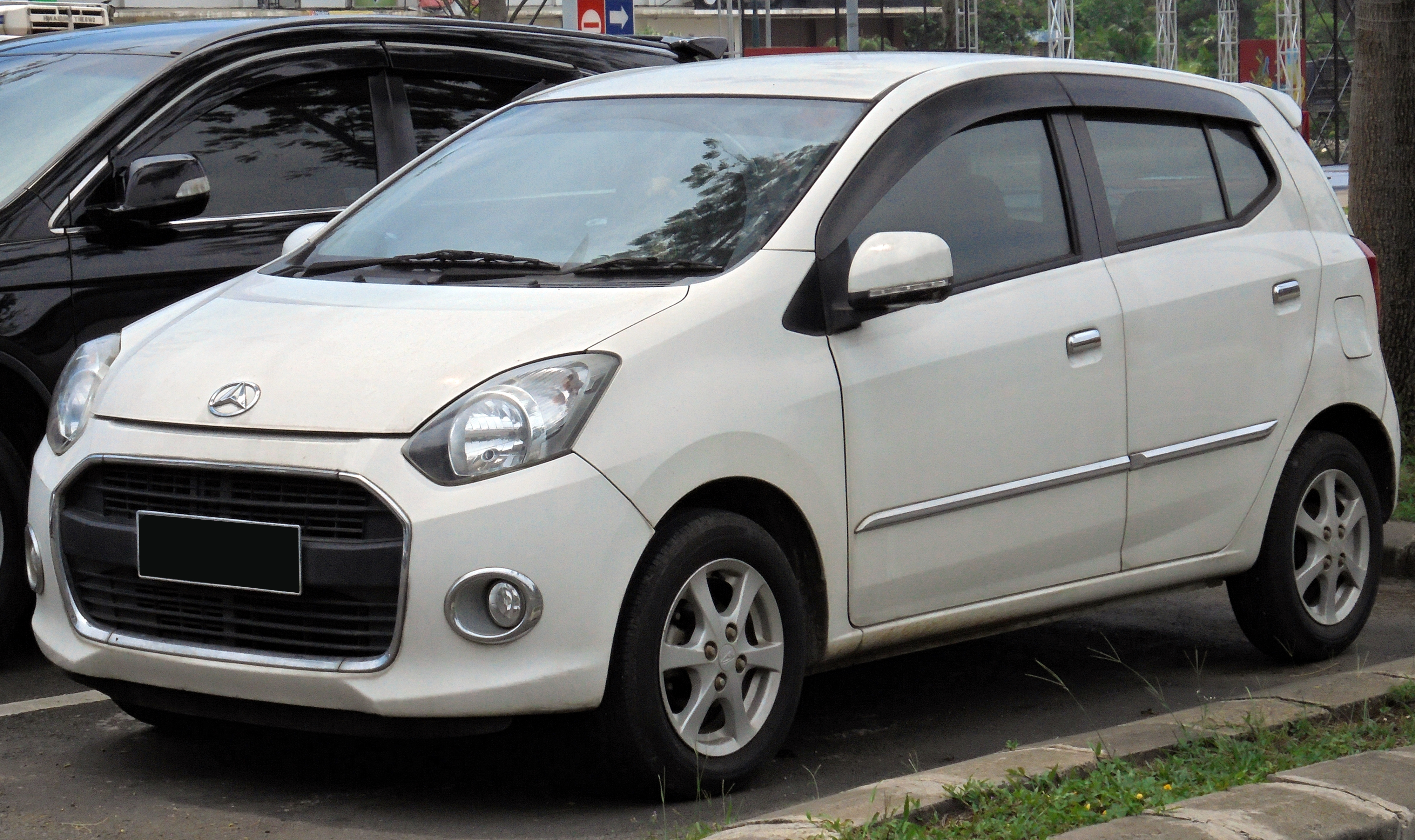 2014 Daihatsu Ayla 1.0 X hatchback (B100RS) photographed in South Tangerang, Banten, Indonesia.